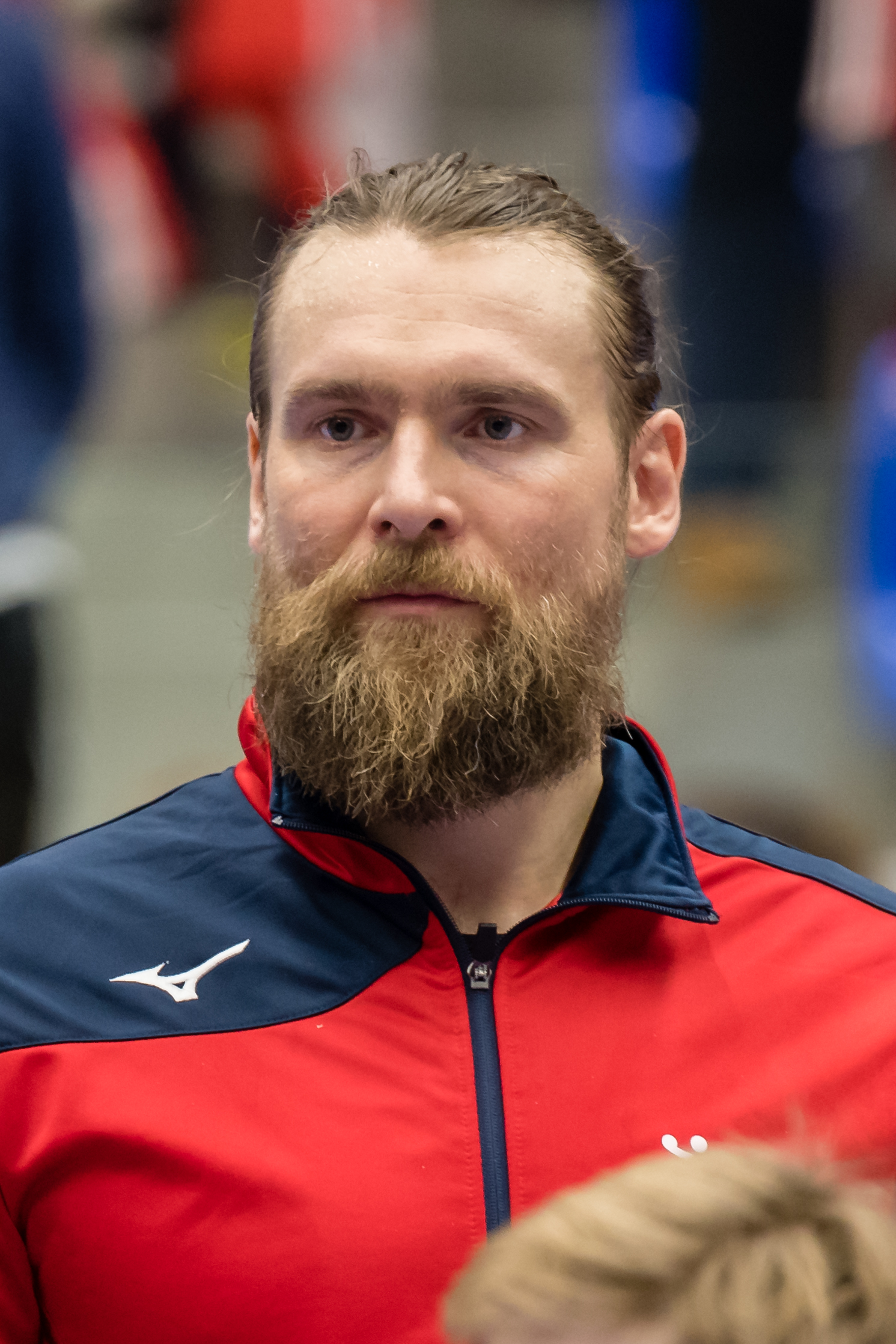 Men's handball Austria Czechia 2018-01-05, picture shows Pavel Horák